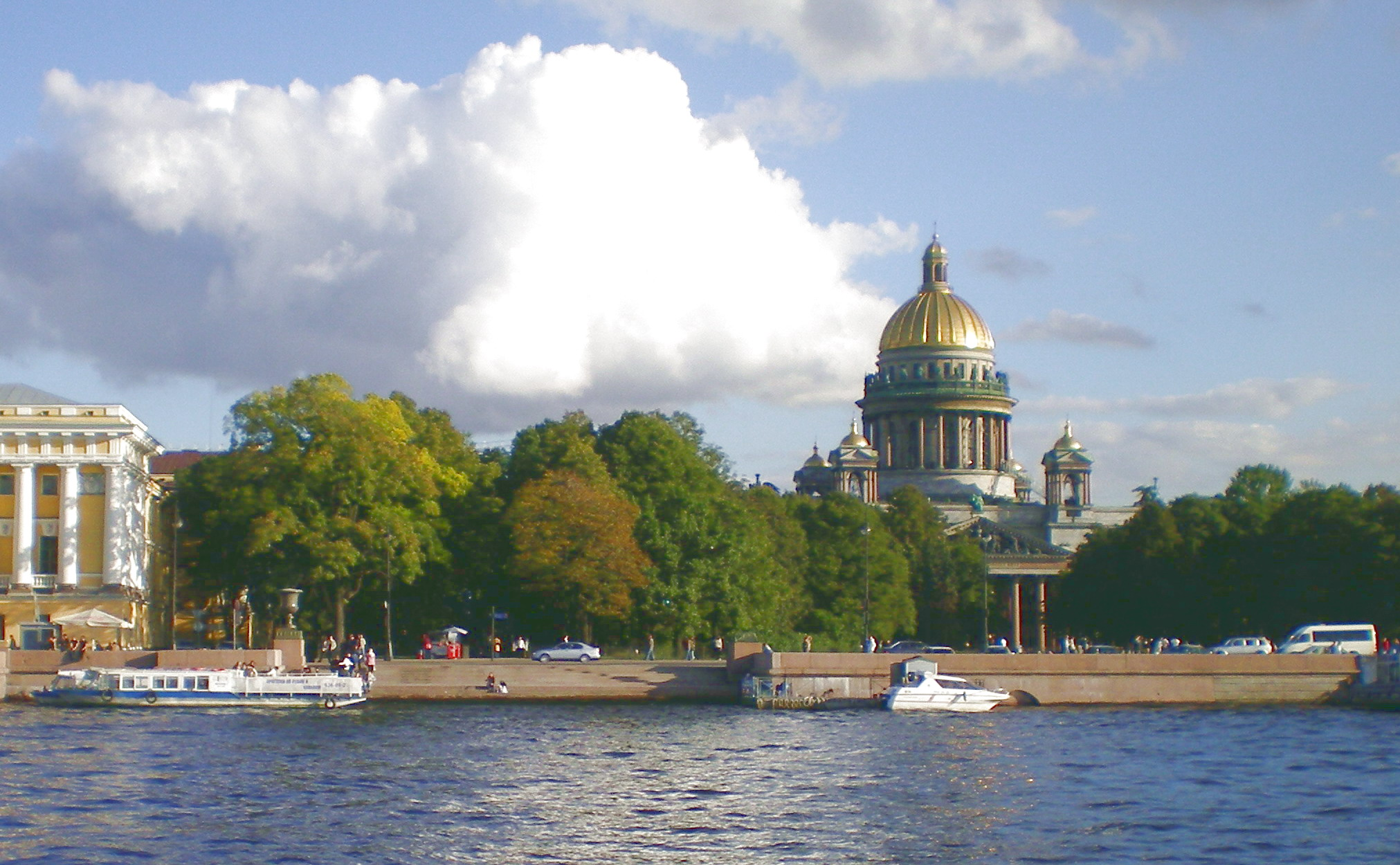 Admiralty Embankment & Aleksandrovsky Garden in Saint Petersburg